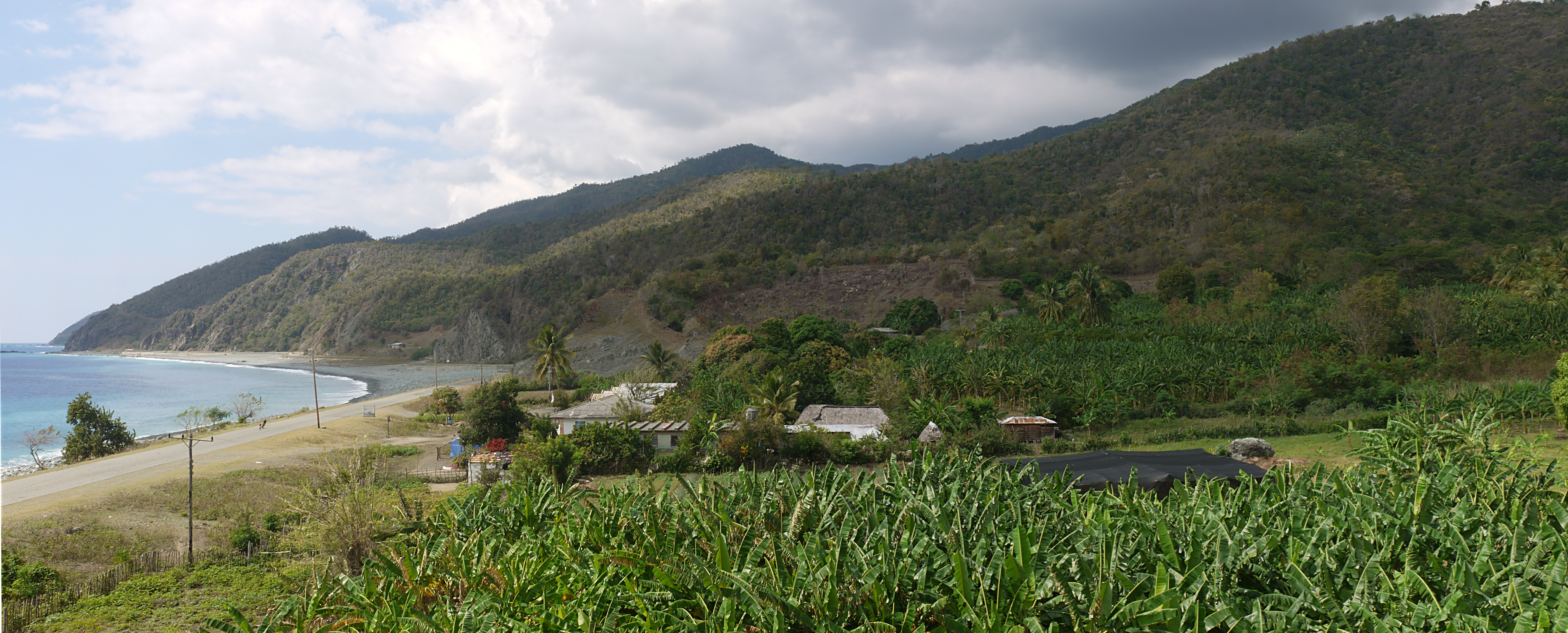 Las Cuevas trailhead view — in Parque Nacional Turquino, Santiago de Cuba Province.